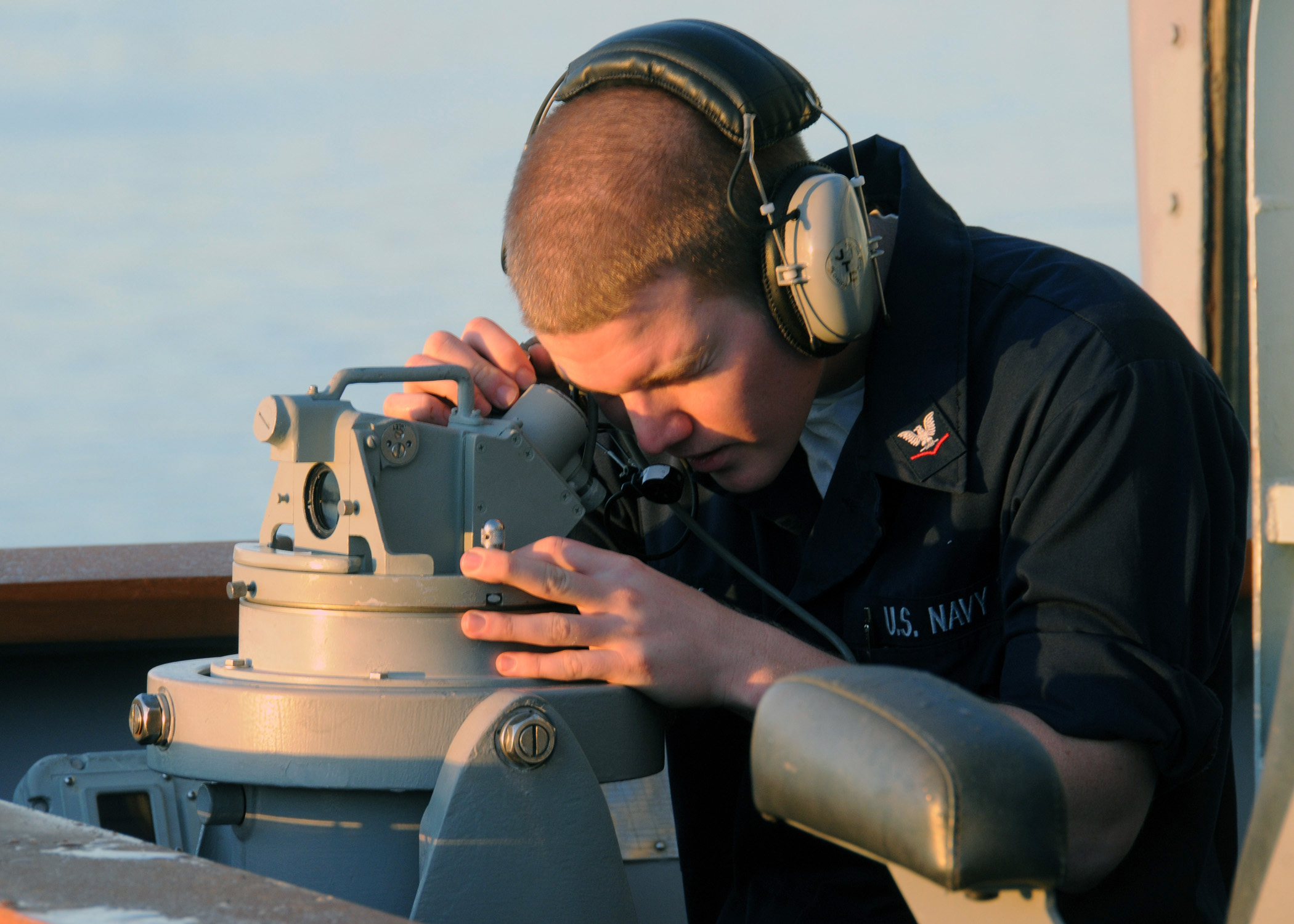 090113-N-9758L-040 PEARL HARBOR, Hawaii (Jan. 13, 2009) Quartermaster 3rd Class Mark Minick, assigned to the Pearl Harbor-based guided-missile cruiser USS Chosin (CG 65), looks through the telescopic alidade as the ship departs Naval Station Pearl Harbor during the Commander, Naval Surface Group Middle Pacific (MIDPAC) Surface Combatant Group Sail. (Original Navy description)